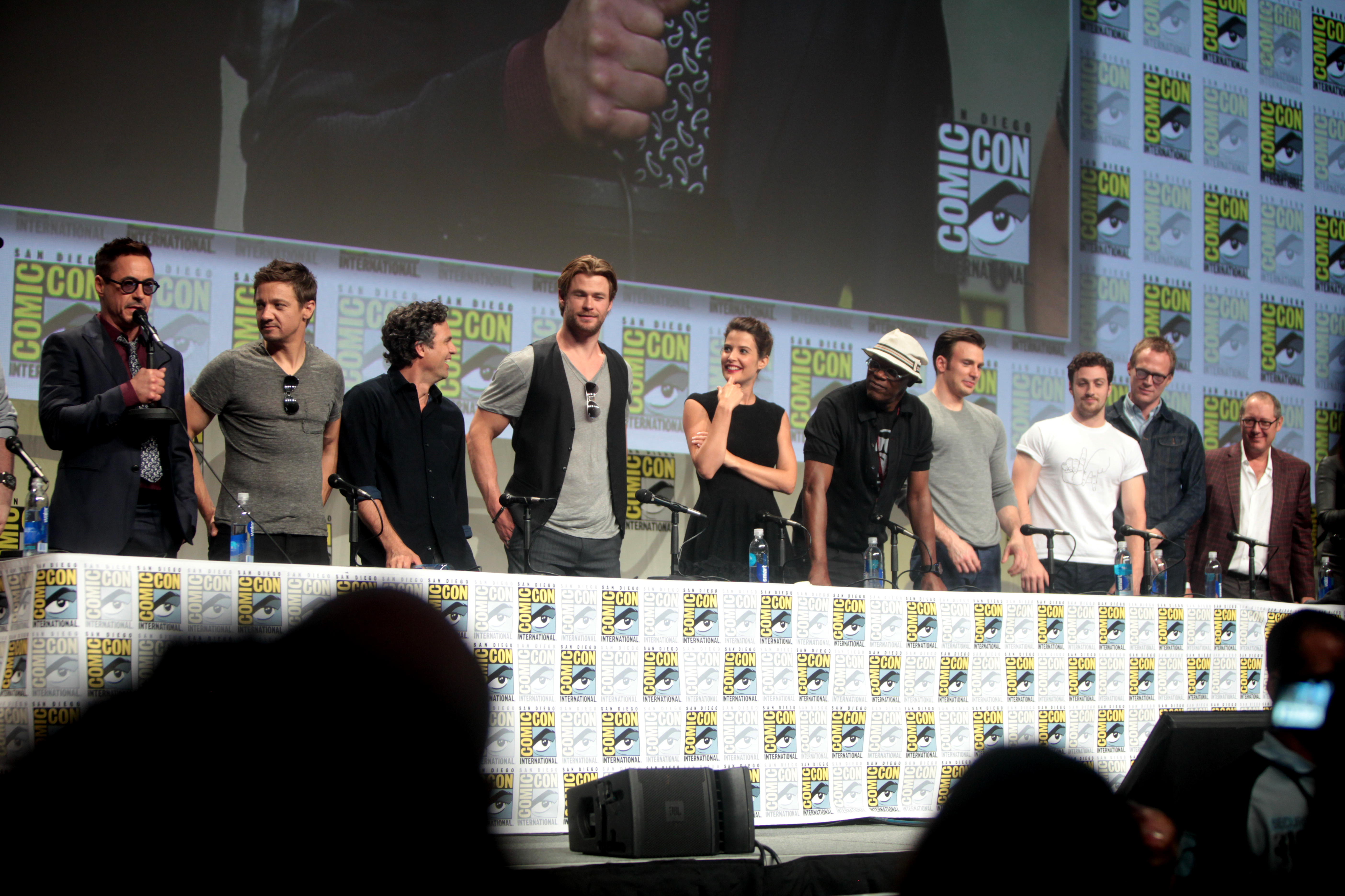 Robert Downey, Jr., Jeremy Renner, Mark Ruffalo, Chris Hemsworth, Cobie Smulders, Samuel L. Jackson, Chris Evans, Aaron Taylor-Johnson, Paul Bettany and James Spader speaking at the 2014 San Diego Comic Con International, for "Avengers: Age of Ultron", at the San Diego Convention Center in San Diego, California.